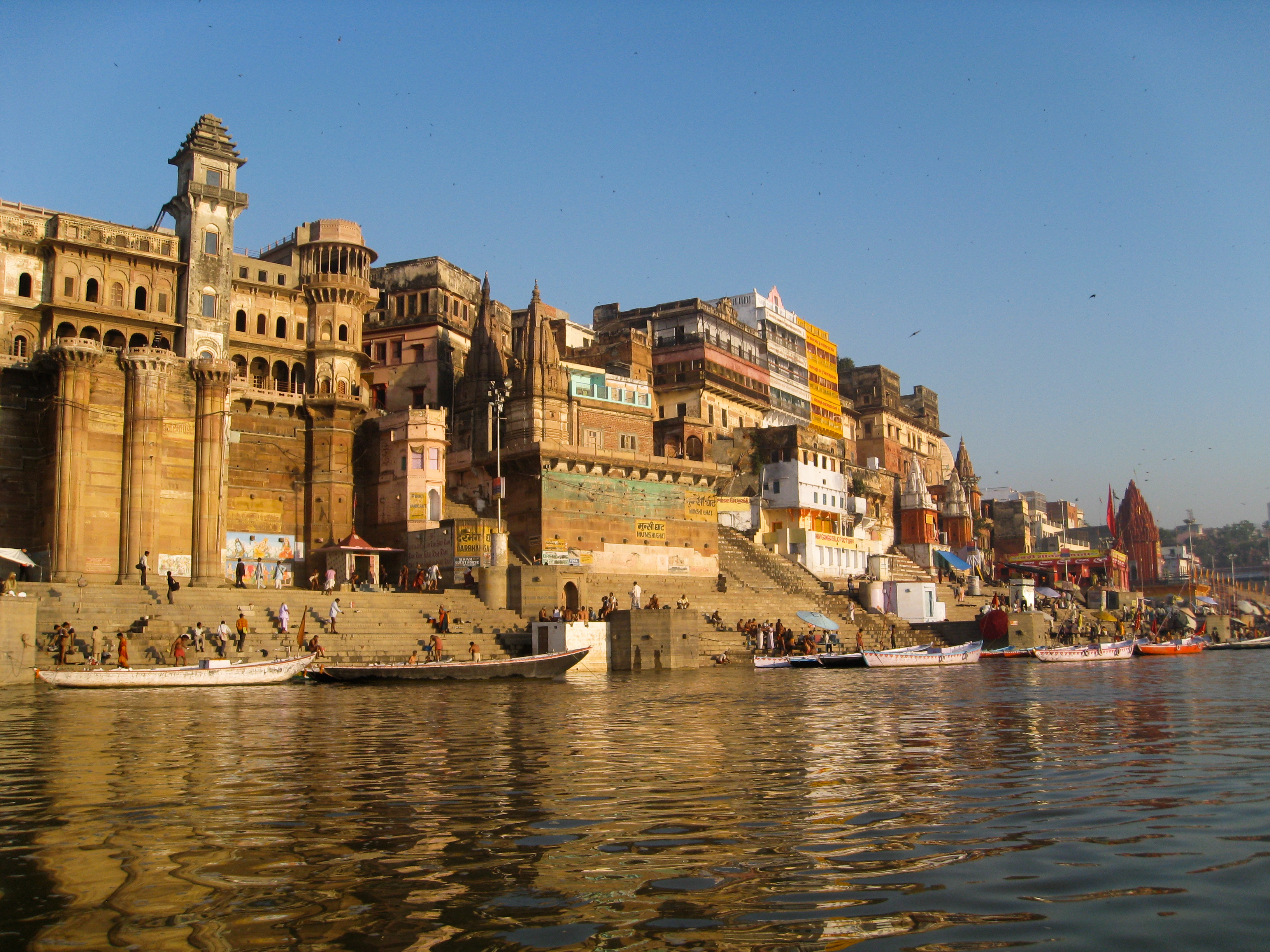 Varanasi - dawn on the riverside